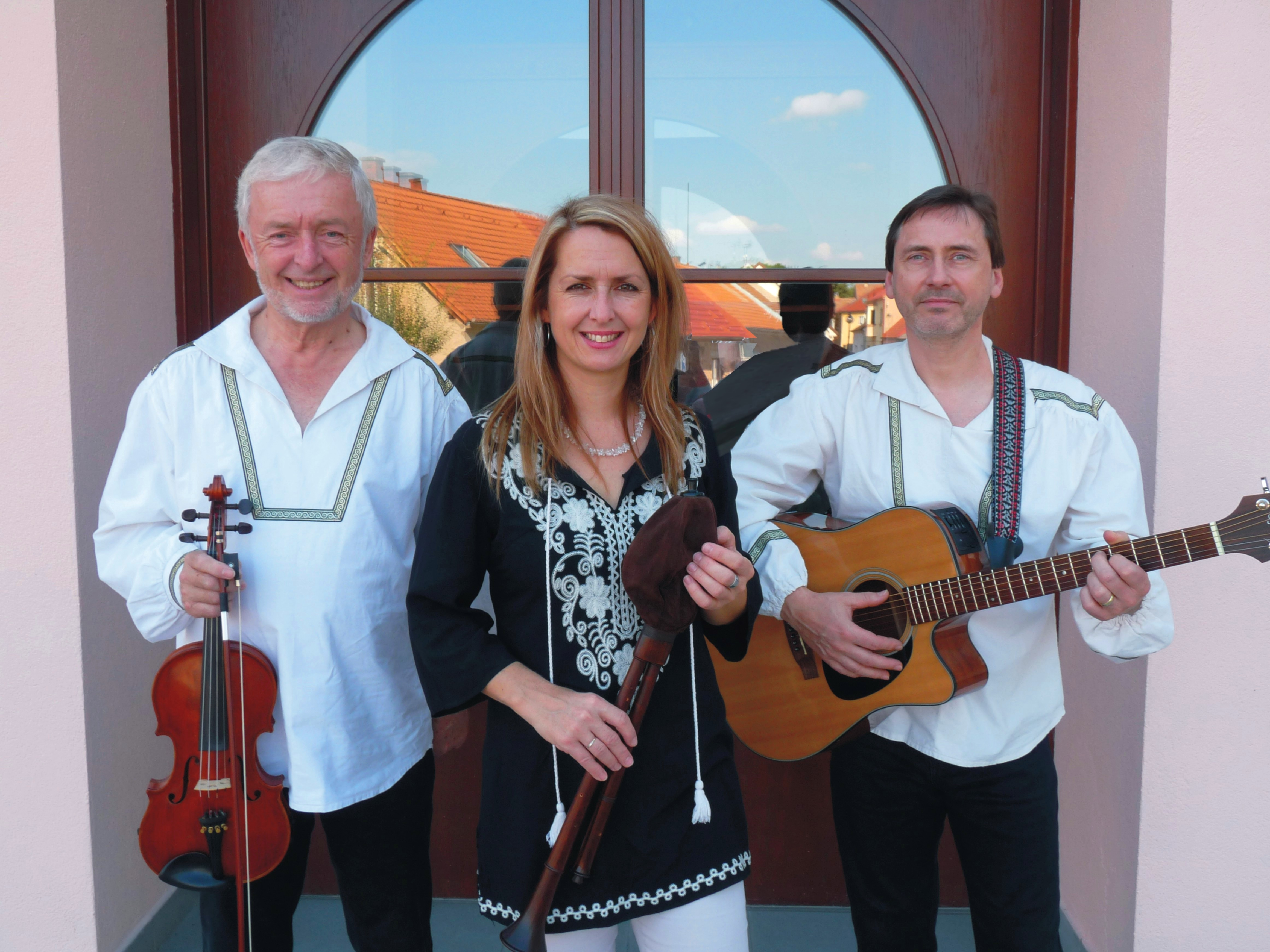 From the left: Jan Filip, Martina Vejrová, Miloš Panchartek